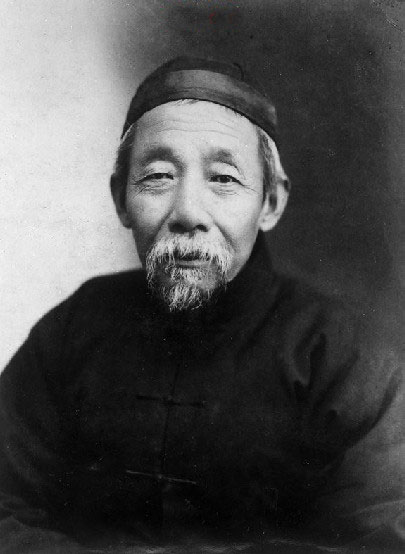 Guqin player Yang Zongji (1863-1931)